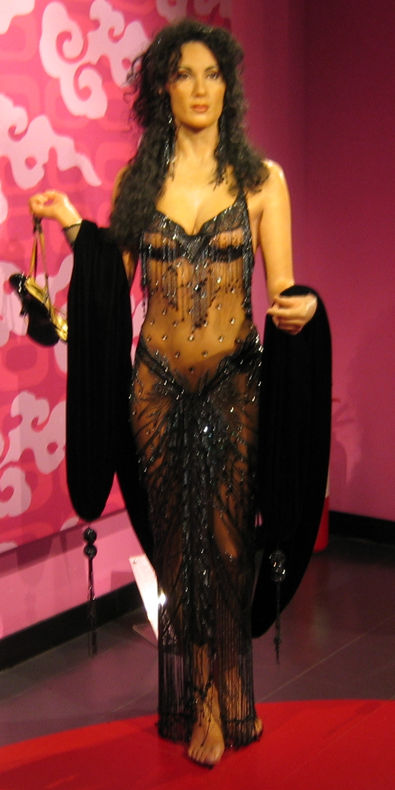 Cher. Wax figure.